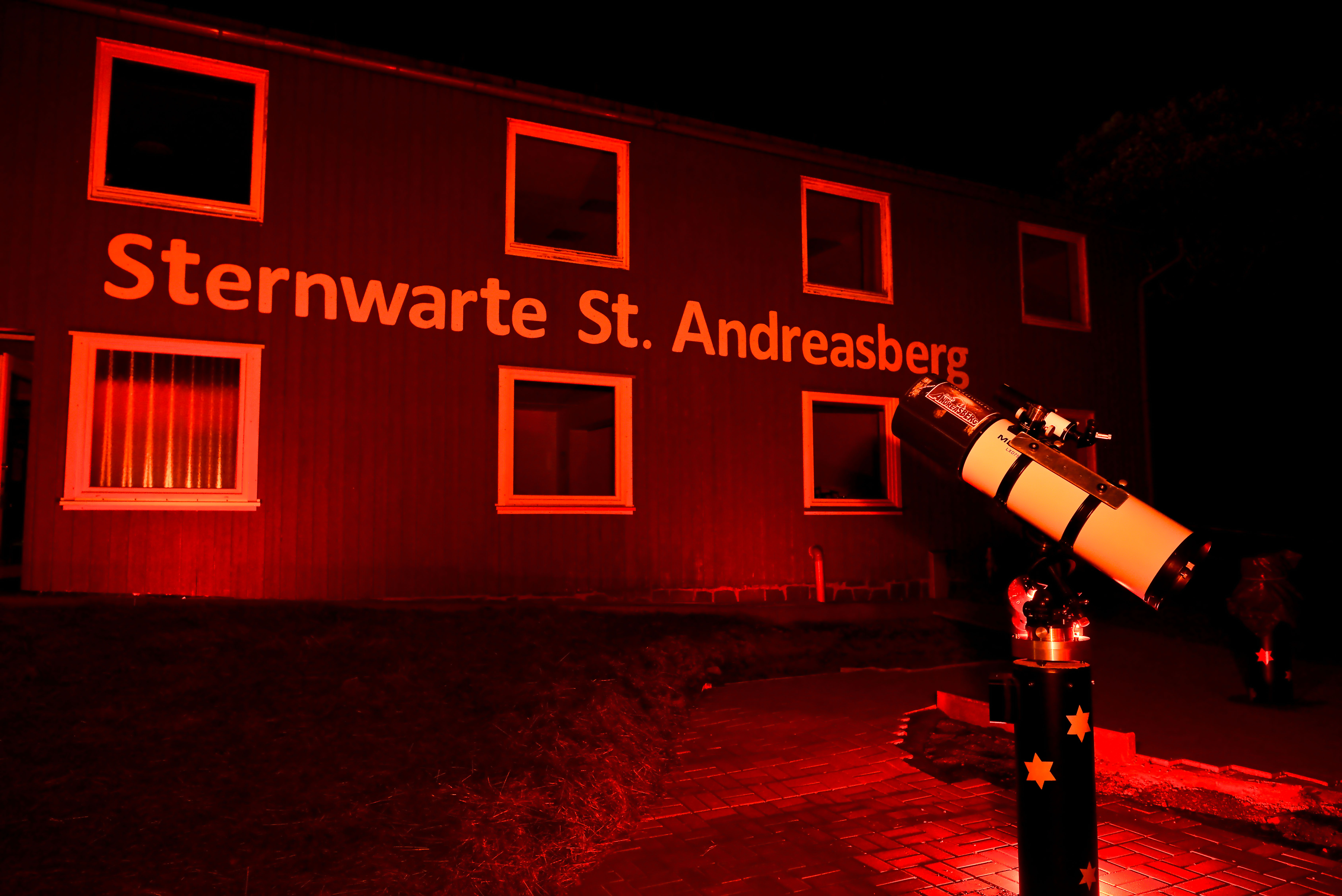 Nightshoot of the Sankt Andreasberg Observatory